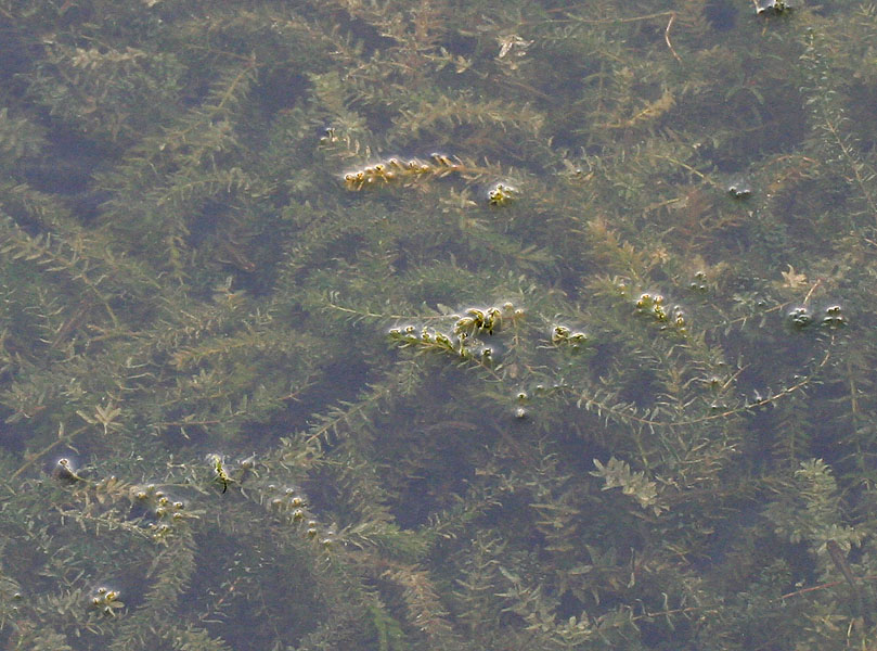 Esthwaite Waterweed or Hydrilla Hydrilla verticillata at Lotus Pond, Hyderabad, India.